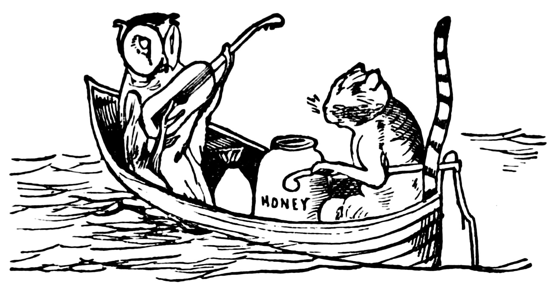 Edward_Lear_The_Owl_and_the_Pussy_Cat_1.jpg